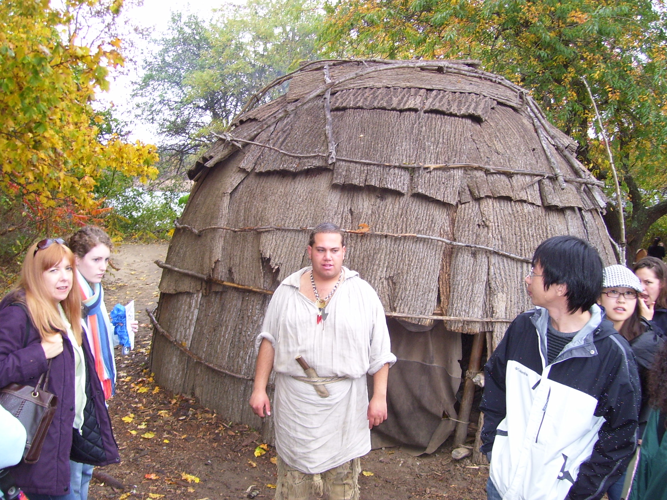 My 2009 photo from Plimoth Plantation in Plymouth, Massachusetts, USA.